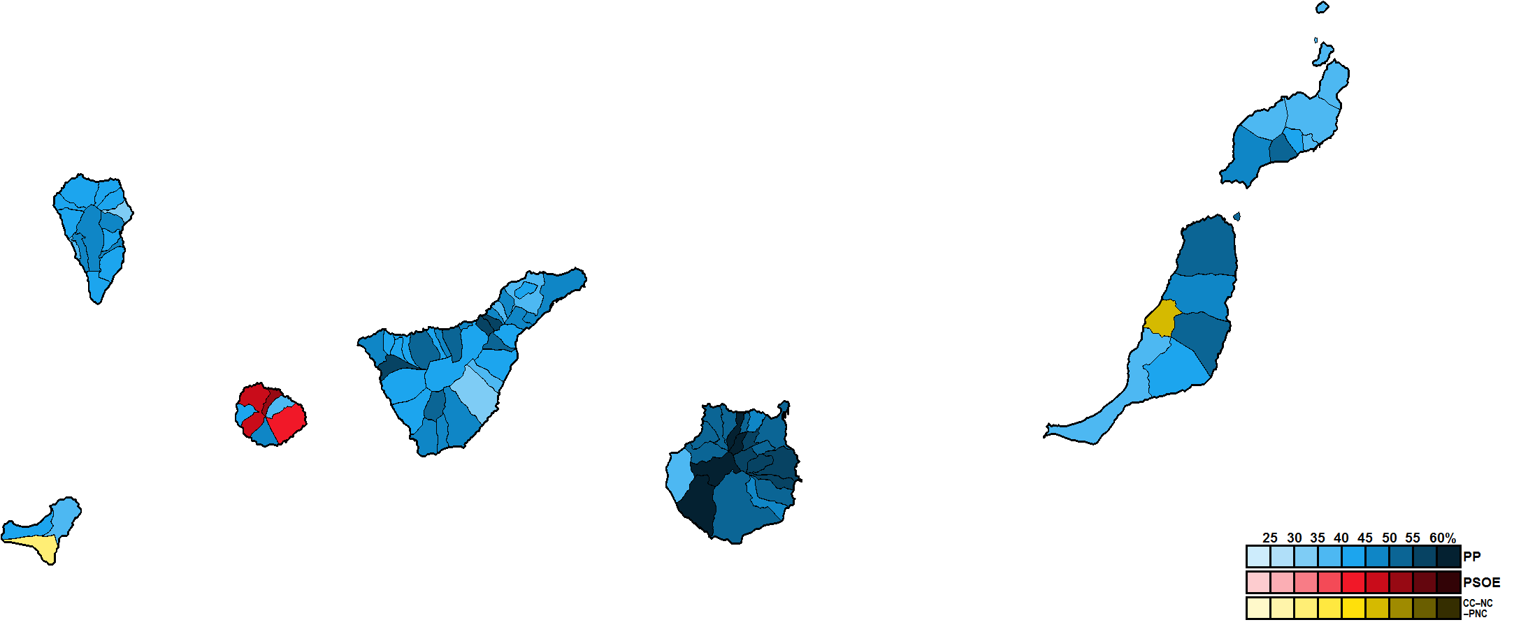 Most-voted party in Canary Islands municipalities, showing vote share obtained, in the Spanish general election, 2011.